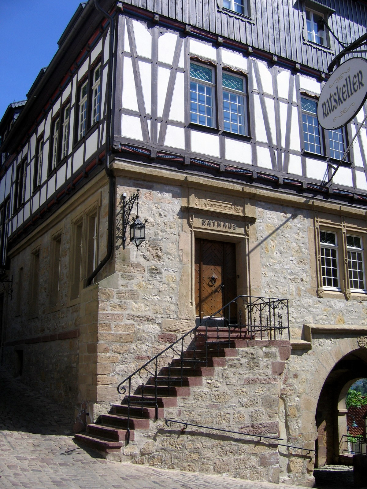 Town Hall "Between the Towns" of Warburg, built in 1568.